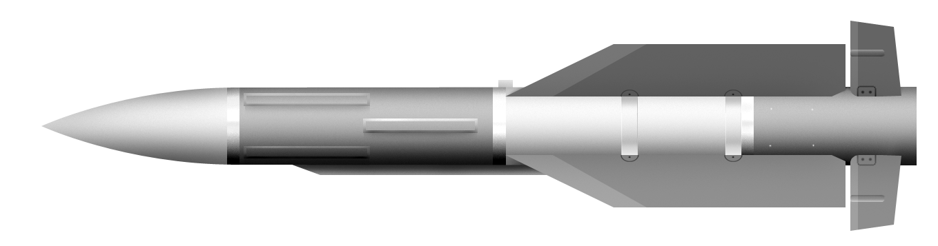 Vympel R-33 (AA-9 Amos) air to air missile scheme